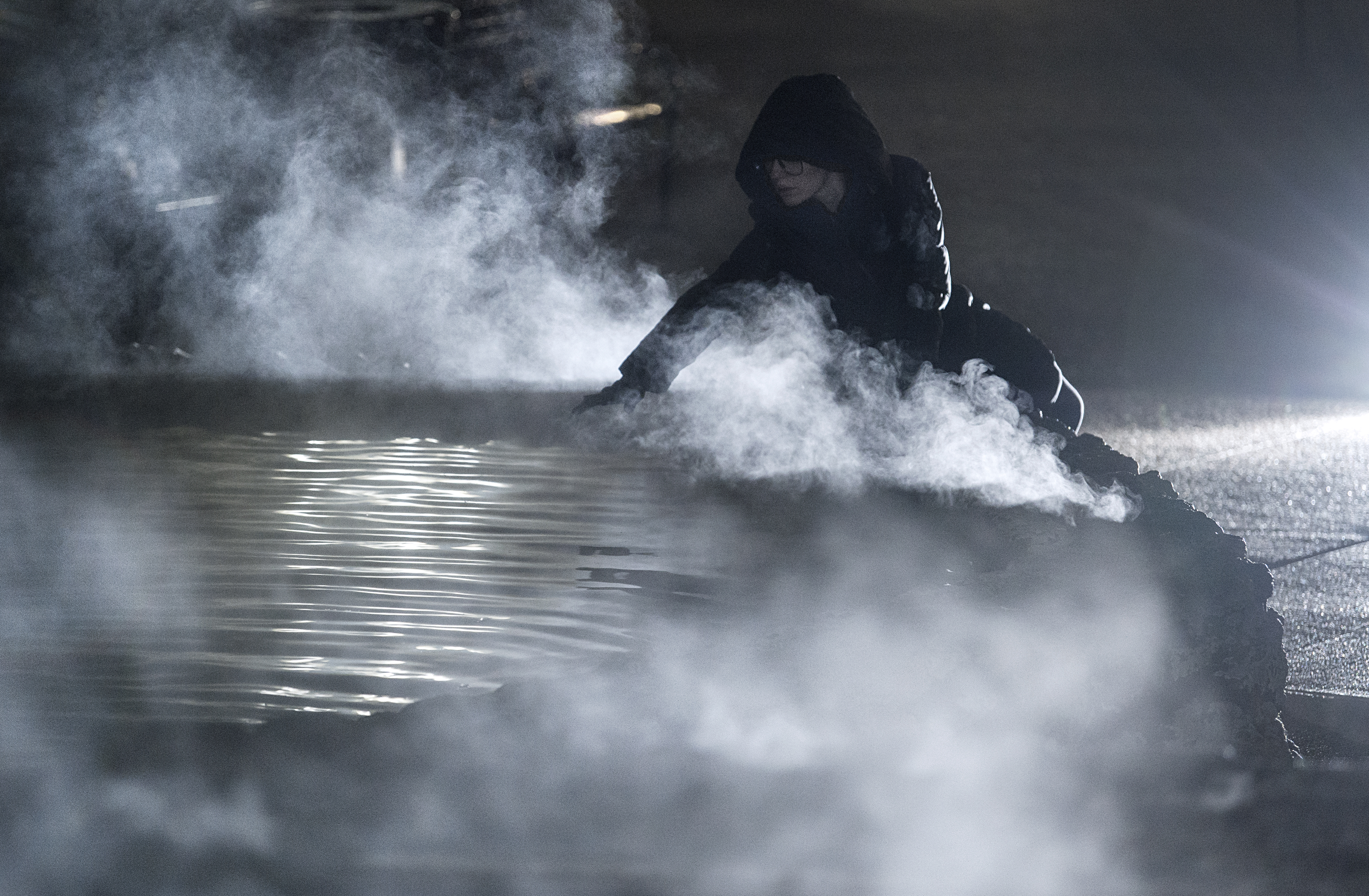 Steamy springs at the entrance of Hot Springs National Park on a cold night. Hot Springs, Arkansas, USA. This image may be used freely under the CC-BY license, but attribution must go to (and a hyperlink must be present if usage is on the web). This image is a part of a series on every US National Park which can be found at at